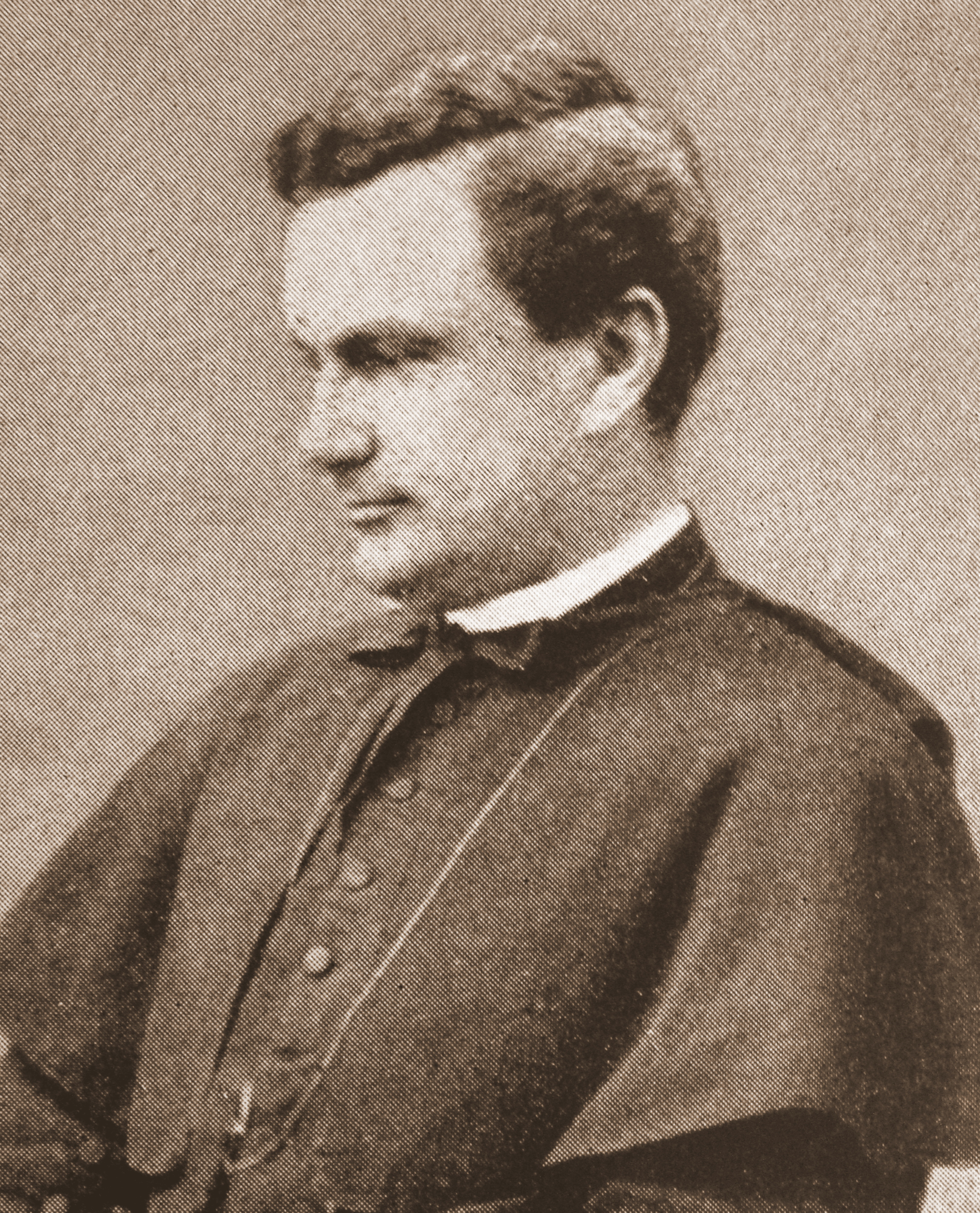 A photograph of Denis J. O'Connell during his tenure as rector of the North American College in Rome (1885–1895)